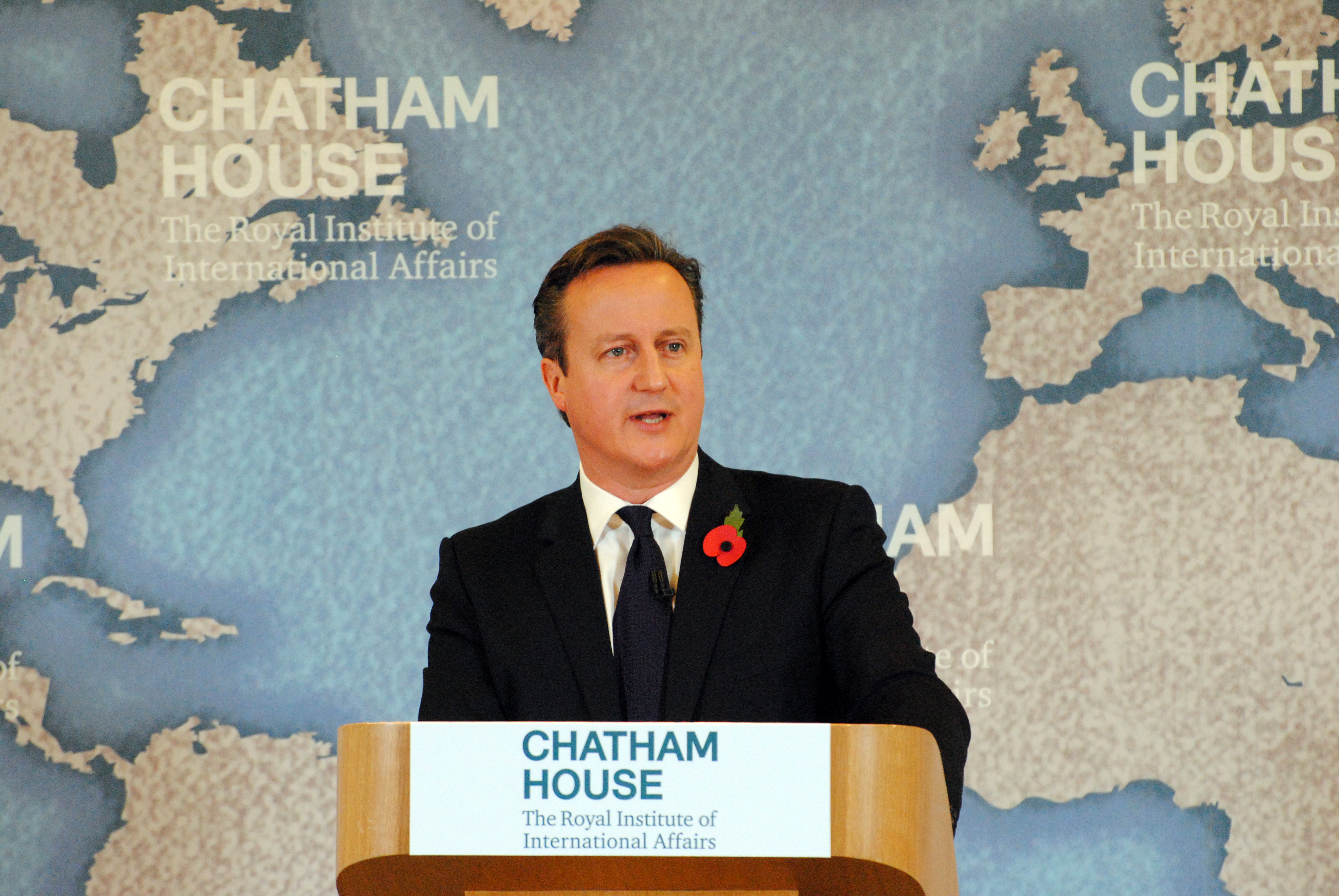 The Future of Britain's Relationship with the European Union, 10 November 2015, cht.hm/1Huuu6a